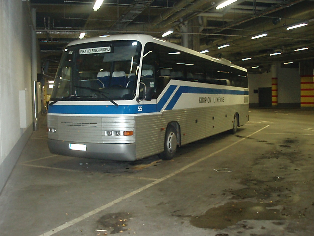 A TC-6Z3/7300/Kabus 3 bus (no. 55, SLF-455) of Kuopion Liikenne Oy. Built 2003.